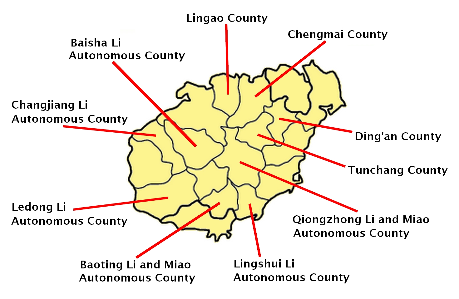 Location of counties within Hainan province of China.